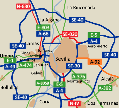 SE-40 MAP MAPA SE-40